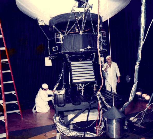 Voyager 1 in the "Space Simulator"-chamber